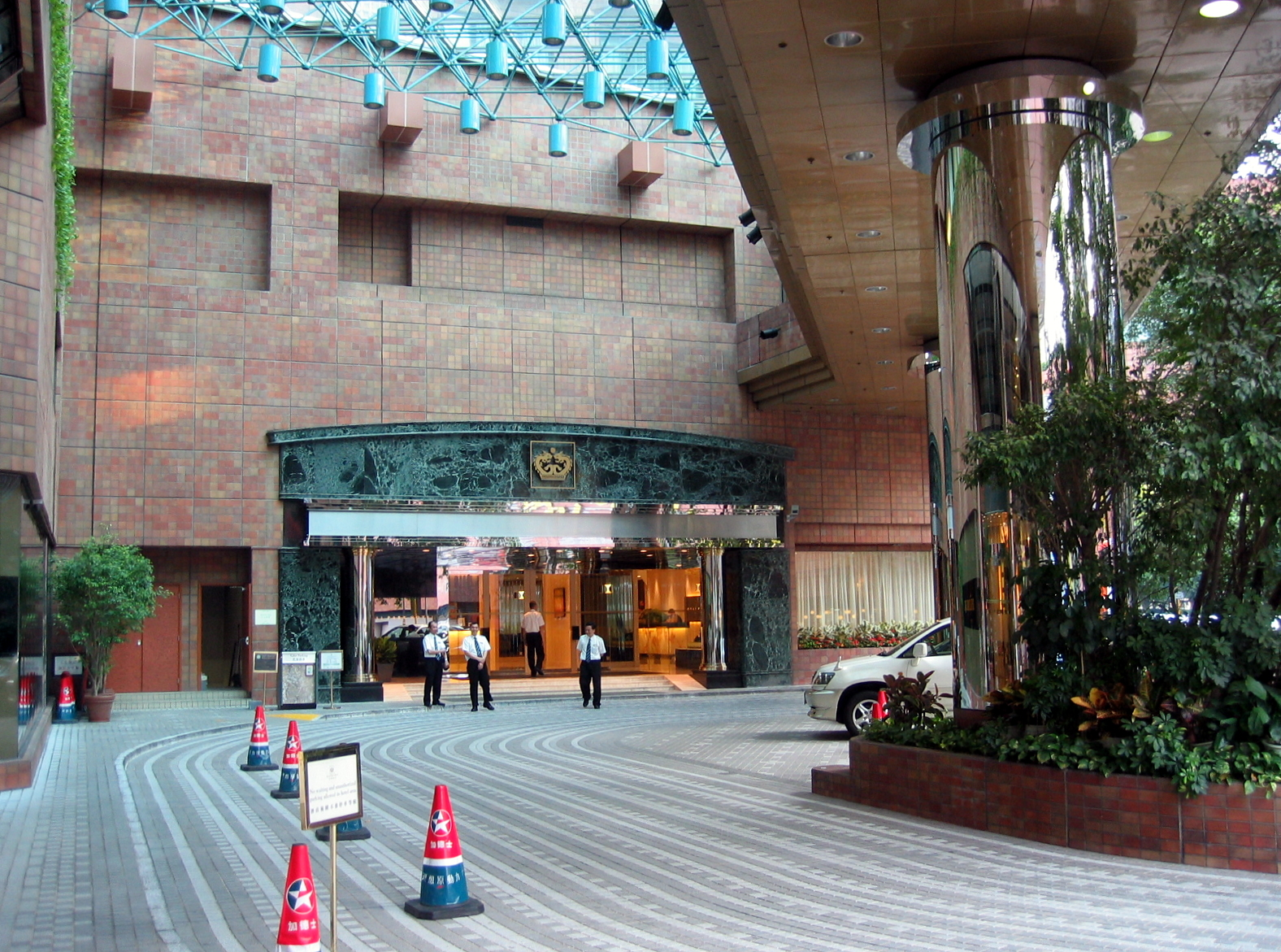 Shatin Royal Park Hotel Enterance